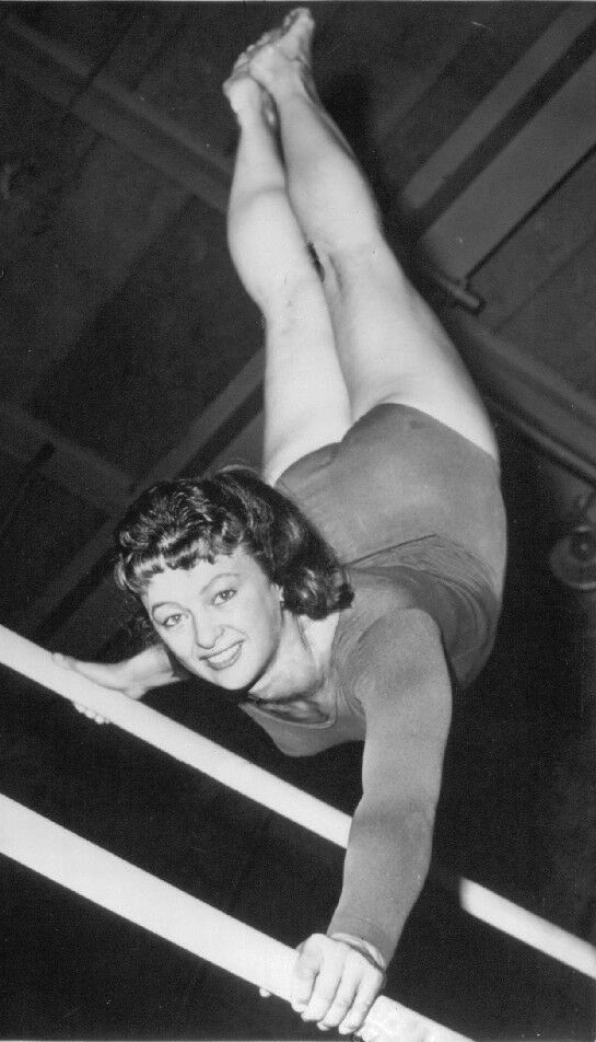 1960 Judy Klauser Olympic Gymnastic Team Trials Press Photo